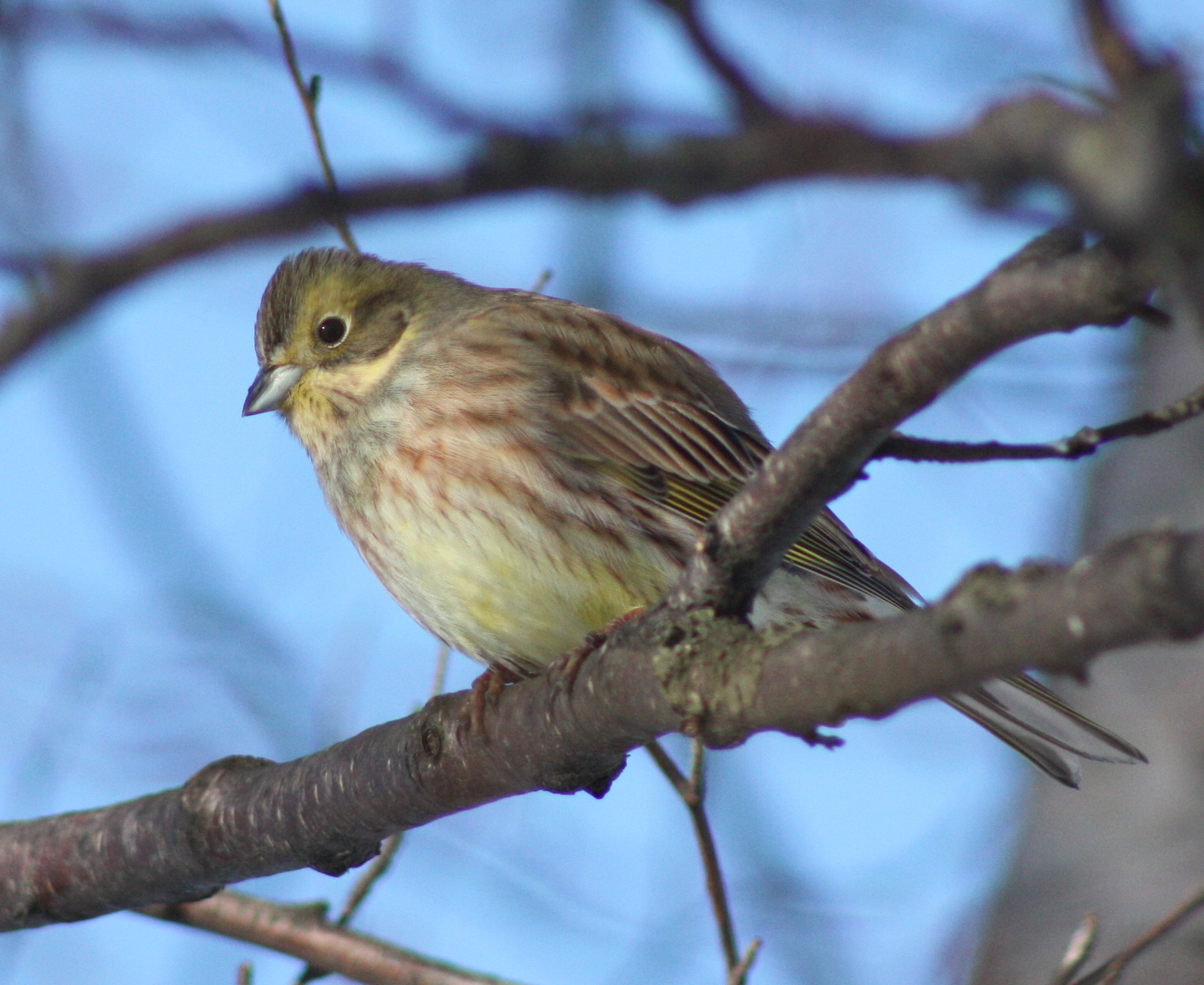 Yellowhammer female (Emberiza citrinella) in Hollihaka Park, Oulu.